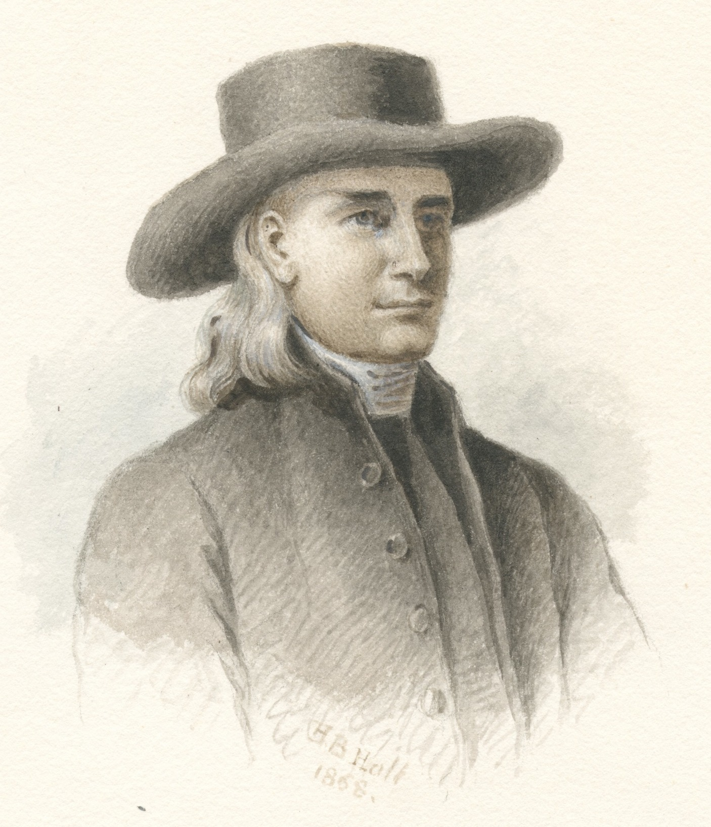 EM1559